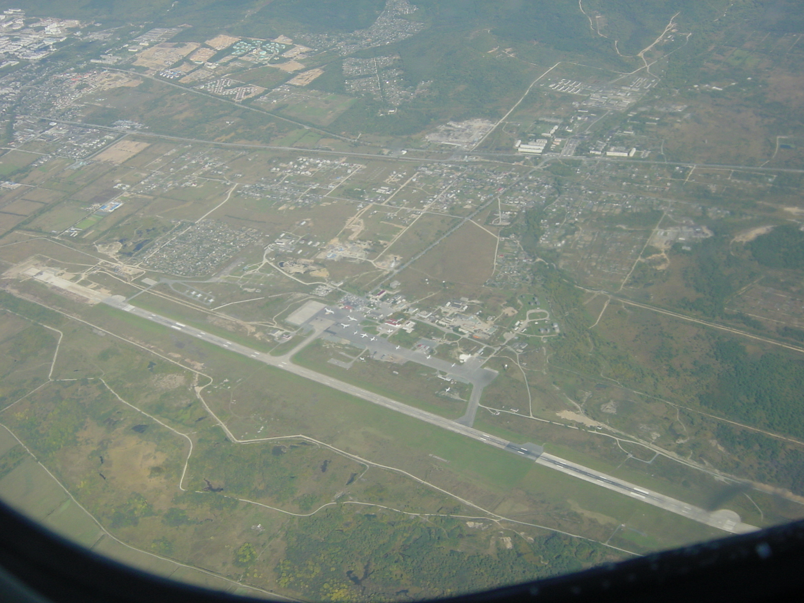 Yuzhno-Sakhalinsk airport from the air.